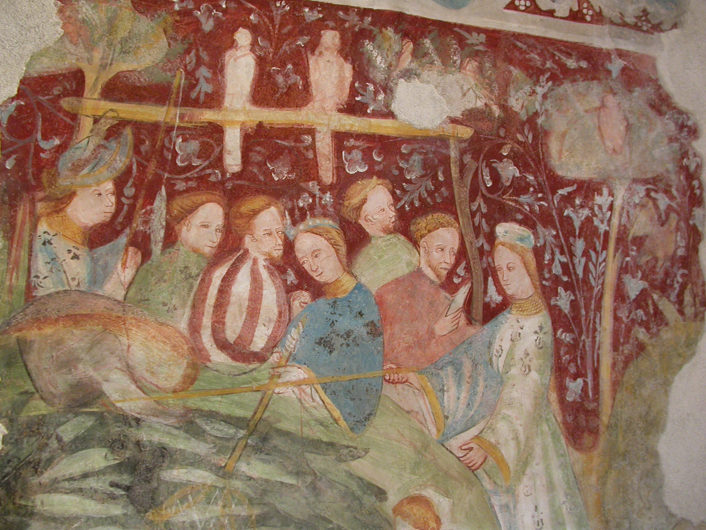 Runkelstein Castle, South Tyrol, profane wallpaintings. Persons catching fisch, a nobleman offers a fish to a lady.